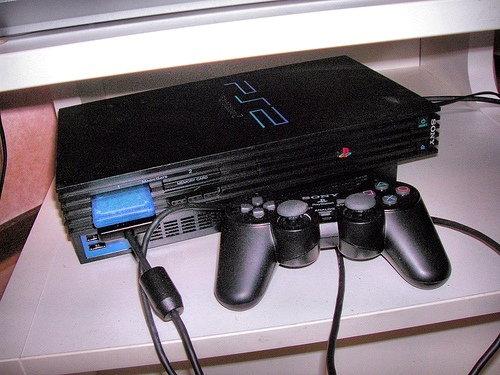 A PlayStation 2 with controller.